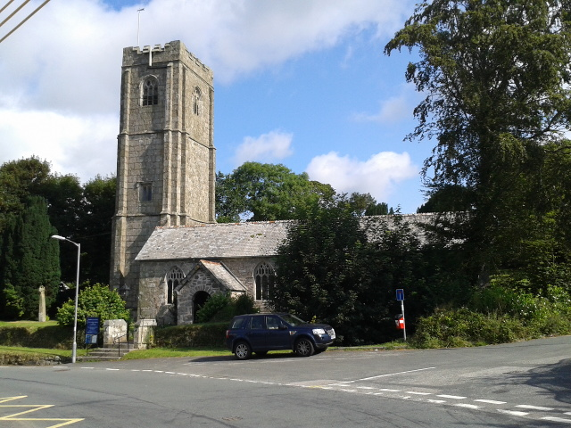 Church at Lanivet